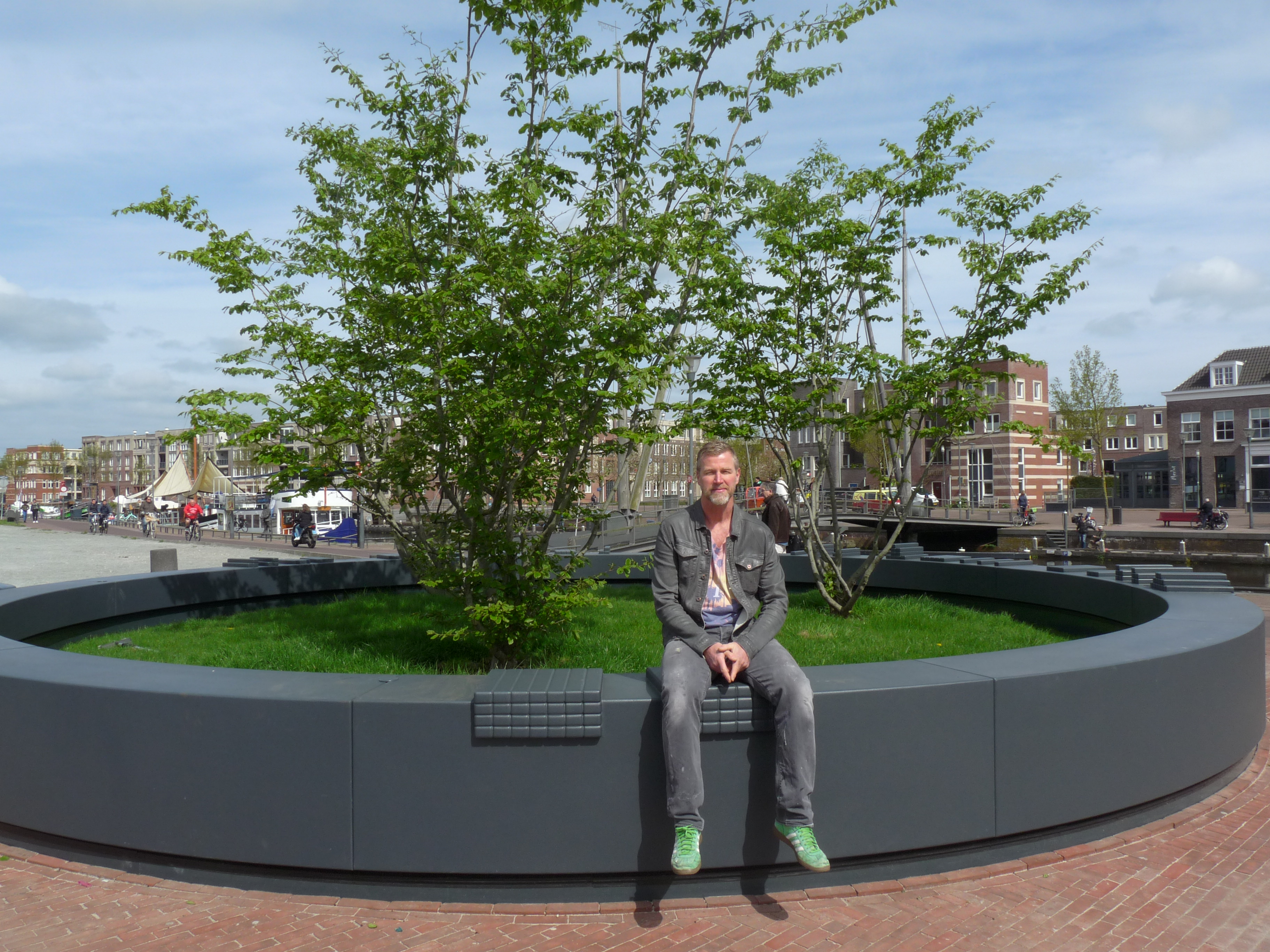 Artist Peter Snel on his work of art 'All I see is mine' on the Eemplein Amersfoort